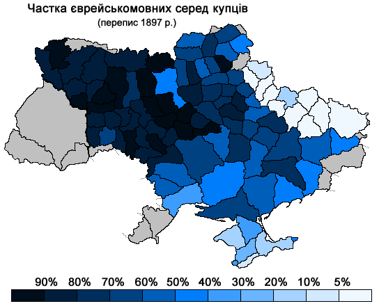 Share of yiddish speakers among the merchants, 1897 census